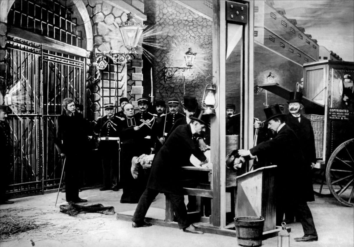 Still from Georges Méliès's 1906 film A Desperate Crime (Les Incendiaires).